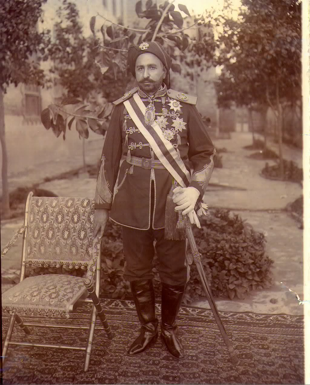 Lieutenant-General H.H Shaikh Khaz'al bin Jabir bin Merdaw al-Ka'bi, Sardar-i-Aqdas, Amir of Mohammerah in military uniform wearing his medals